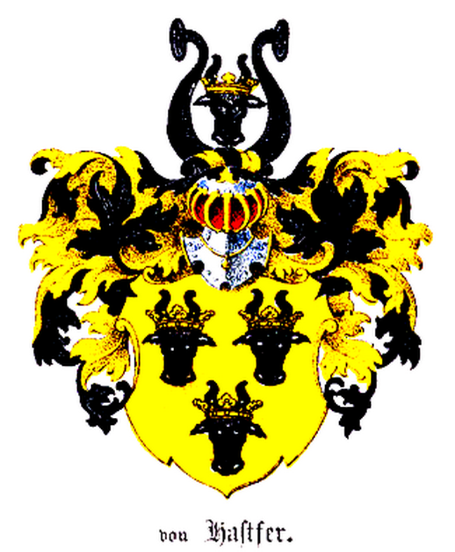 Coat of Arms of Hastfer family